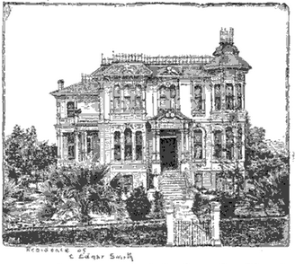 Home of Dr. C. Edgar Smith & Mariana de Smith